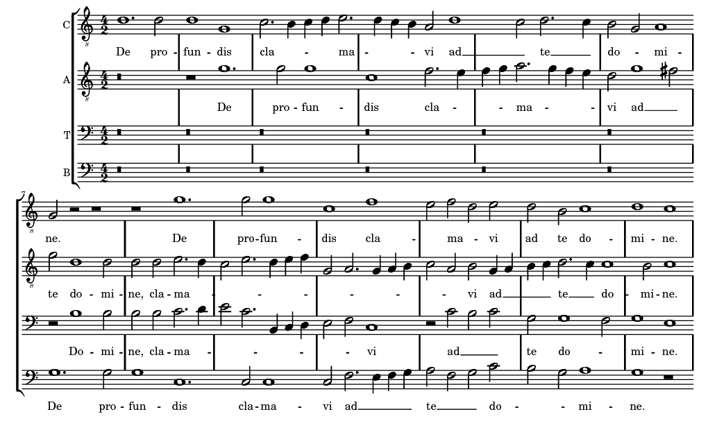 Beginning of psalm motet De profundis by Josquin des Prez, illustrating technique of opening canon between two voices and motivic imitation